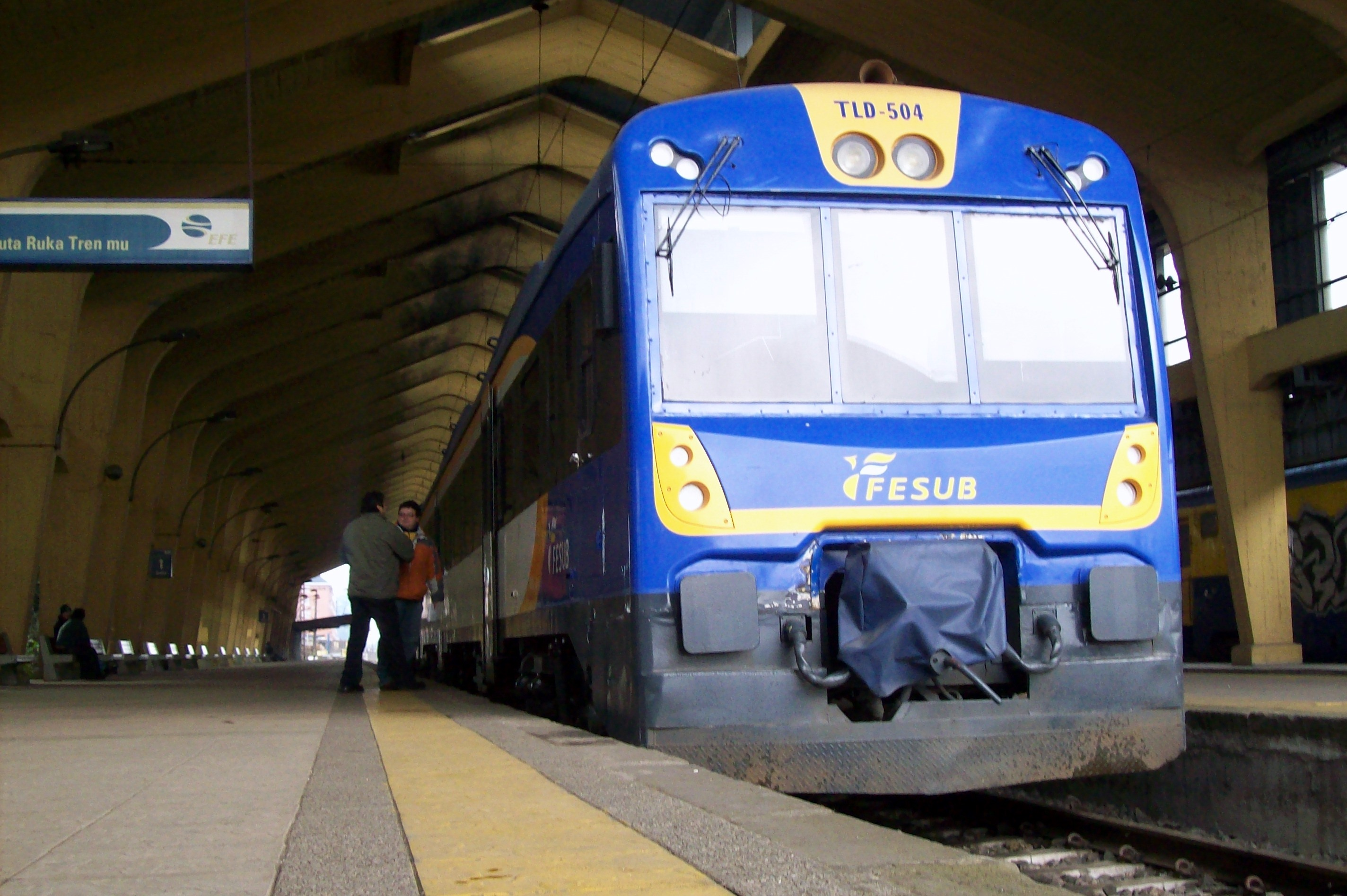 CAF 593 Railcar TLD-504 on Temuco Railway station, 'resting' before resuming duties.